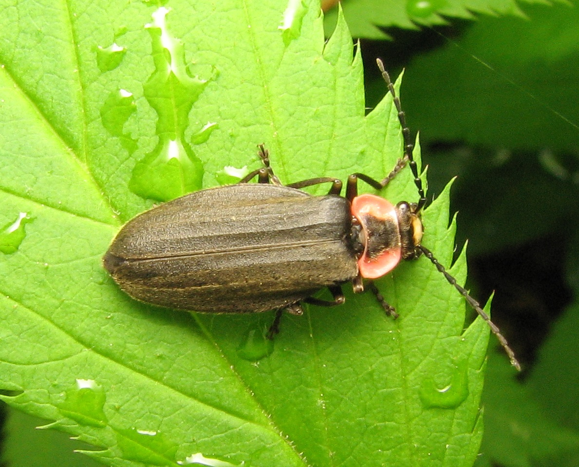 Soldier beetle, Podabrus tricostatus. Corneille Bryan Native Garden, Lake Junaluska, , Haywood County, North Carolina, USA.